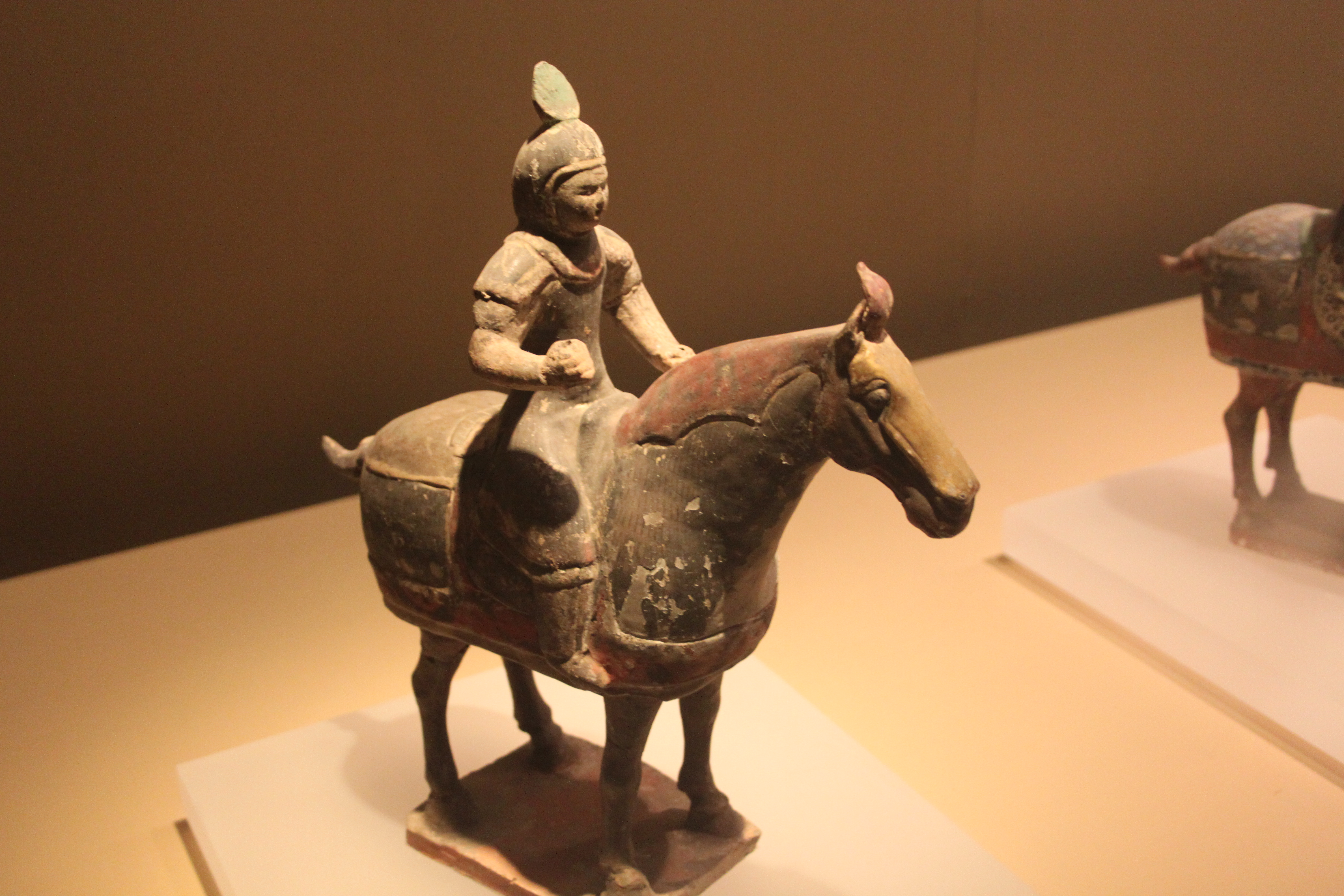 Tang Pottery Horse & Rider